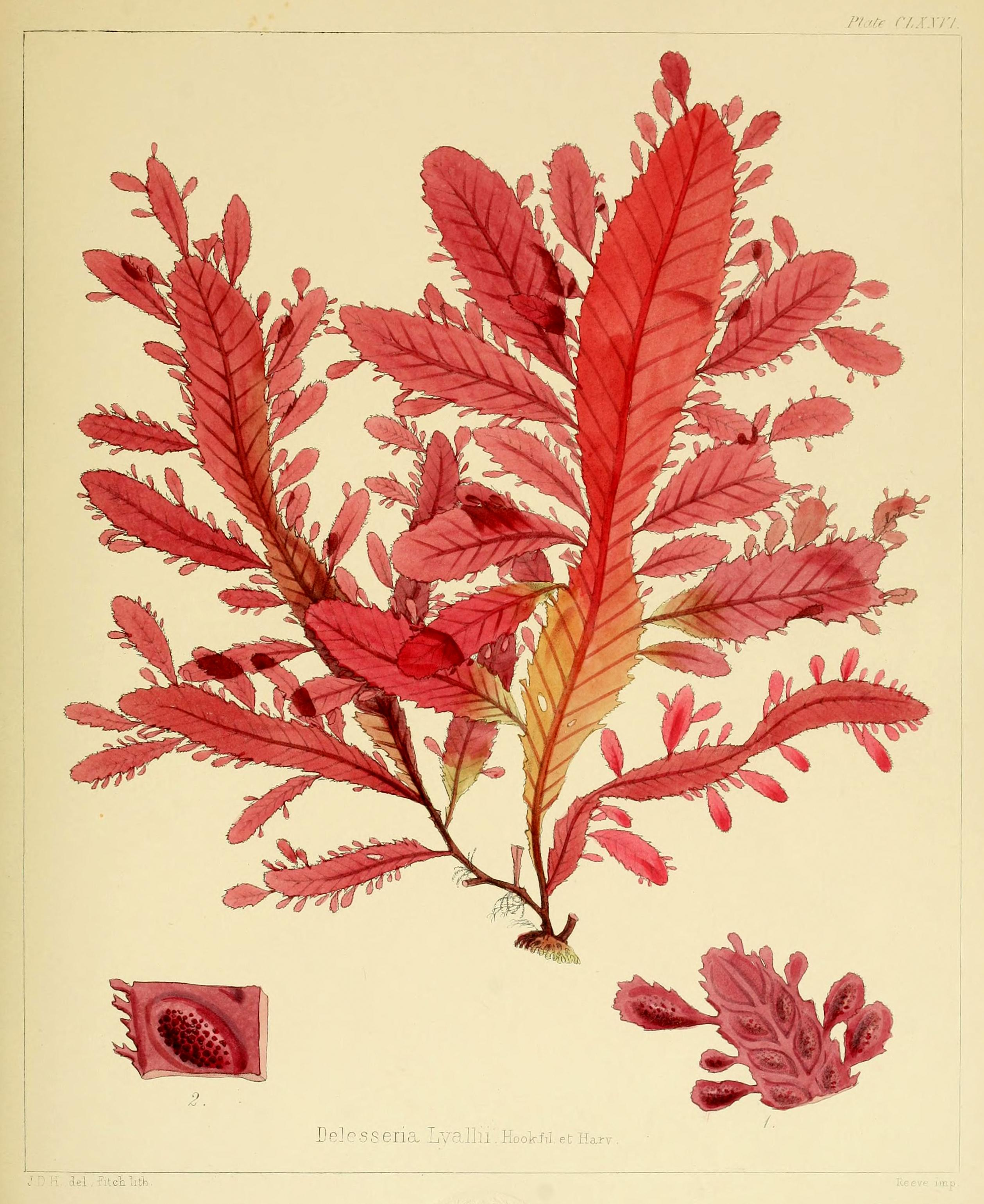 Delesseria lyallii : original first published plate (CLXXVI) in Botany of Antarctic by Joseph Dalton Hooker